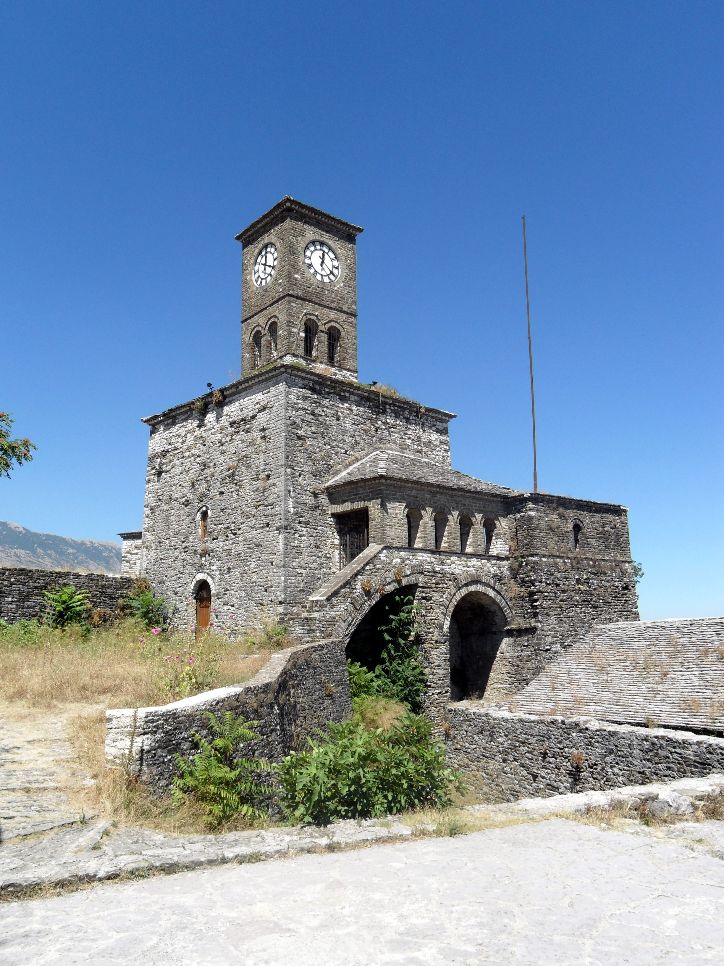 Castle in Gjirokastër